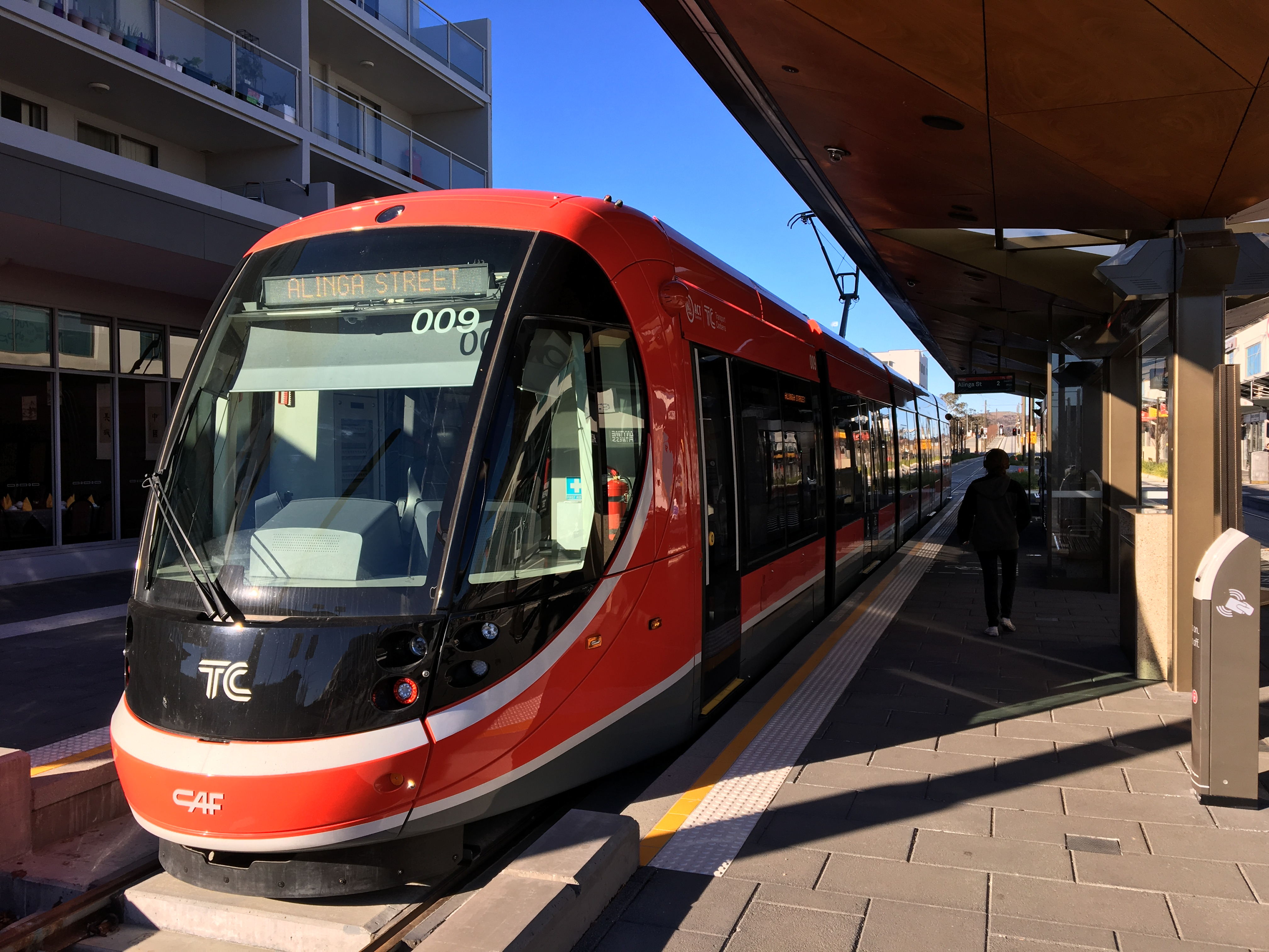 Gungahlin Place light rail terminus